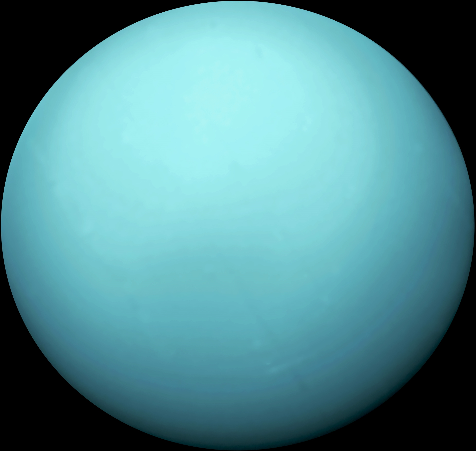 This is an image of the planet Uranus taken by the spacecraft Voyager 2 in 1986.